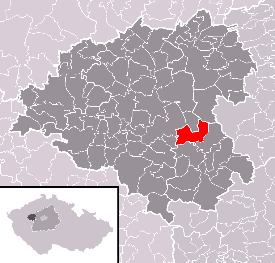 Location of Pustověty municipality within Rakovník District and (identical) administrative area of Rakovník as a Municipality with Extended Competence.